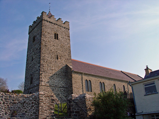 Parish church: Llanarth This church with its prominent hilltop site was originally dedicated to the obscure St Fylltyg, but is now dedicated to St David. It was renovated in 1872.